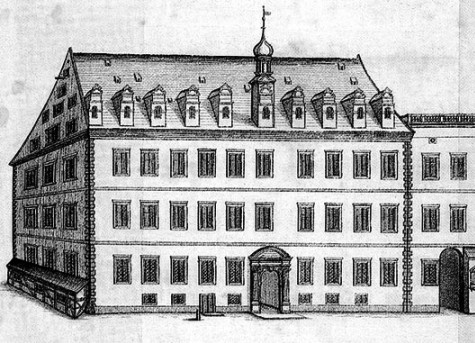 Elisabethanum, the renaissance building of St. Elizabeth Gymnasium in Wrocław (before 1945 Breslau)